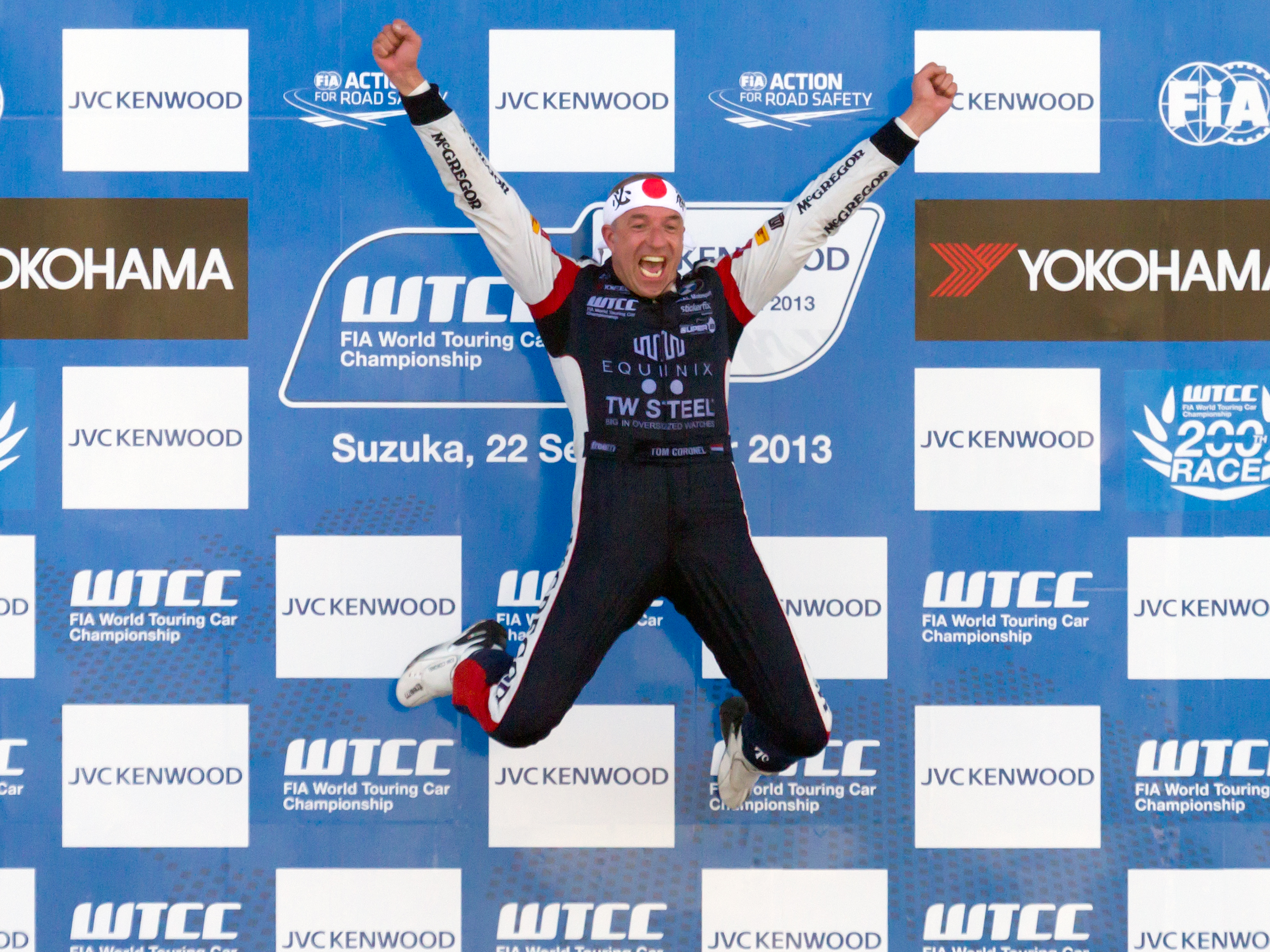 World Touring Car Championship 2013 Race of Japan: Tom Coronel (ROAL Motorsport), the winner of the 200th WTCC race since 2005.